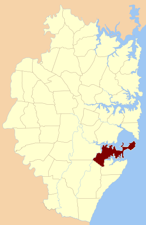 original location of the parish within Cumberland County, New South Wales (Sydney area)